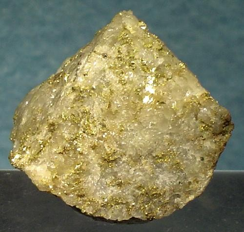 Gold, Quartz Locality: Nakase mine (Nakaze mine), Yabu-gun, Hyogo Prefecture, Kinki Region, Honshu Island, Japan (Locality at ) Size: 2.3 x 2.0 x 1.6 cm. A rich and showy specimen of bright, microcrystalline and hackly gold in hydrothermal quartz from an uncommon Japanese locality - the Nakase Mine on Honshu Island. Highly representative of the species and locality. Older material from the John Ydren Collection. He obtained this from the Burton Jirgl Collection, a dealer who had spent much time in Japan after the 1940s and amassed a sizable and important reference suite, all well documented.